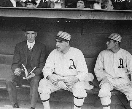 Connie Mack & Ira Thomas (coach), Philadelphia AL (baseball)